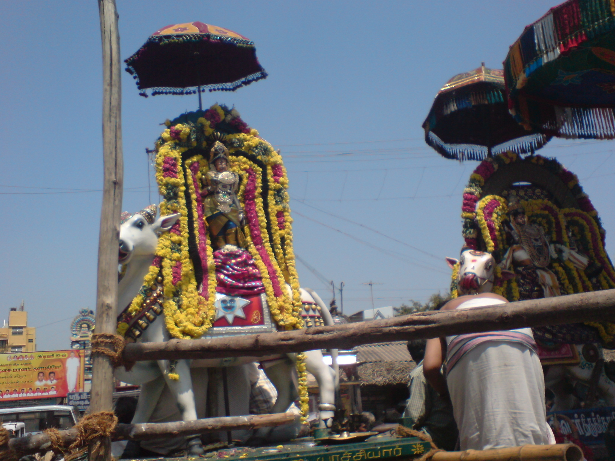 Hindu temple, kumbakonam, masimagam